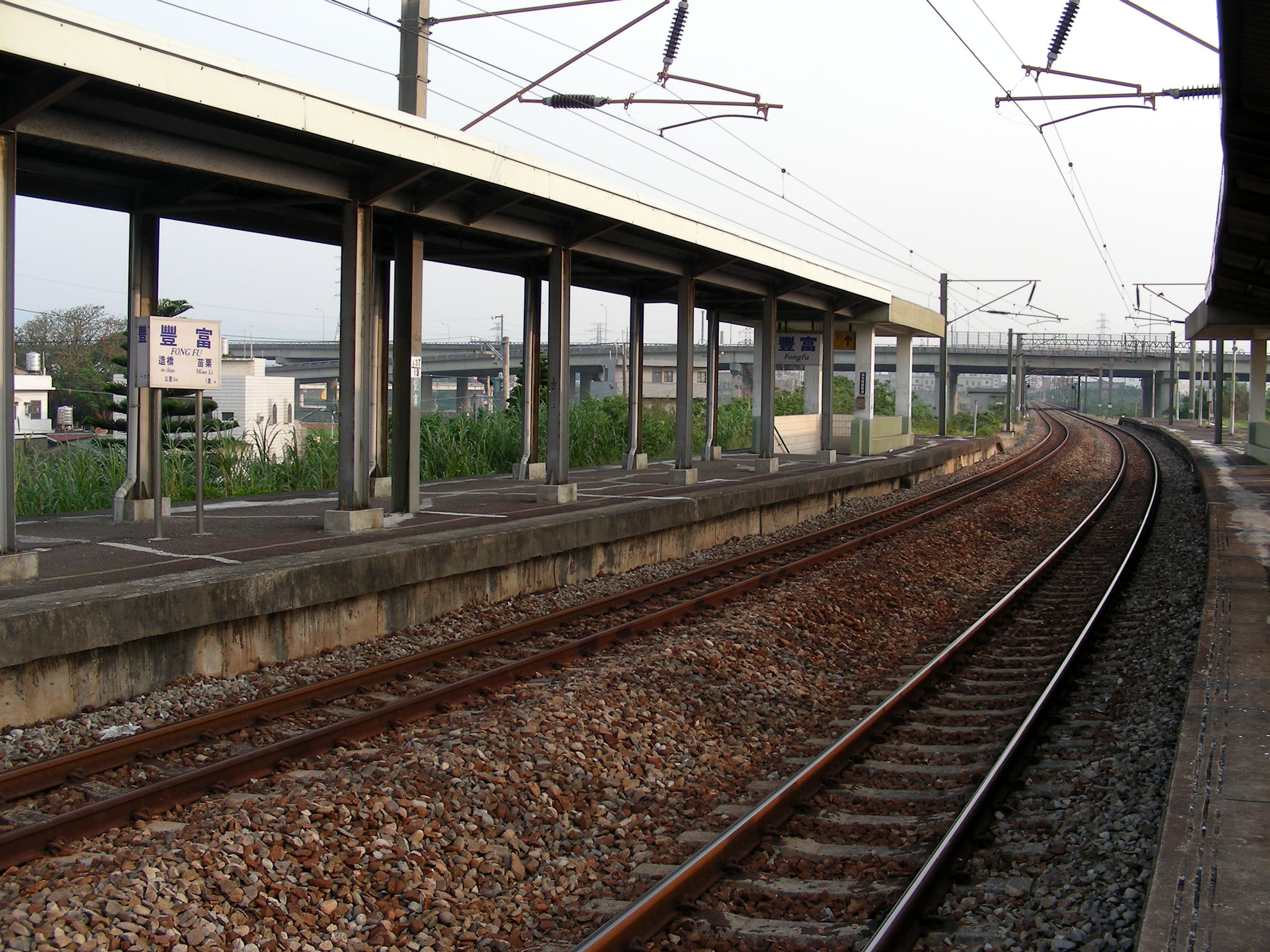 Platform of TRA FongFu Station.